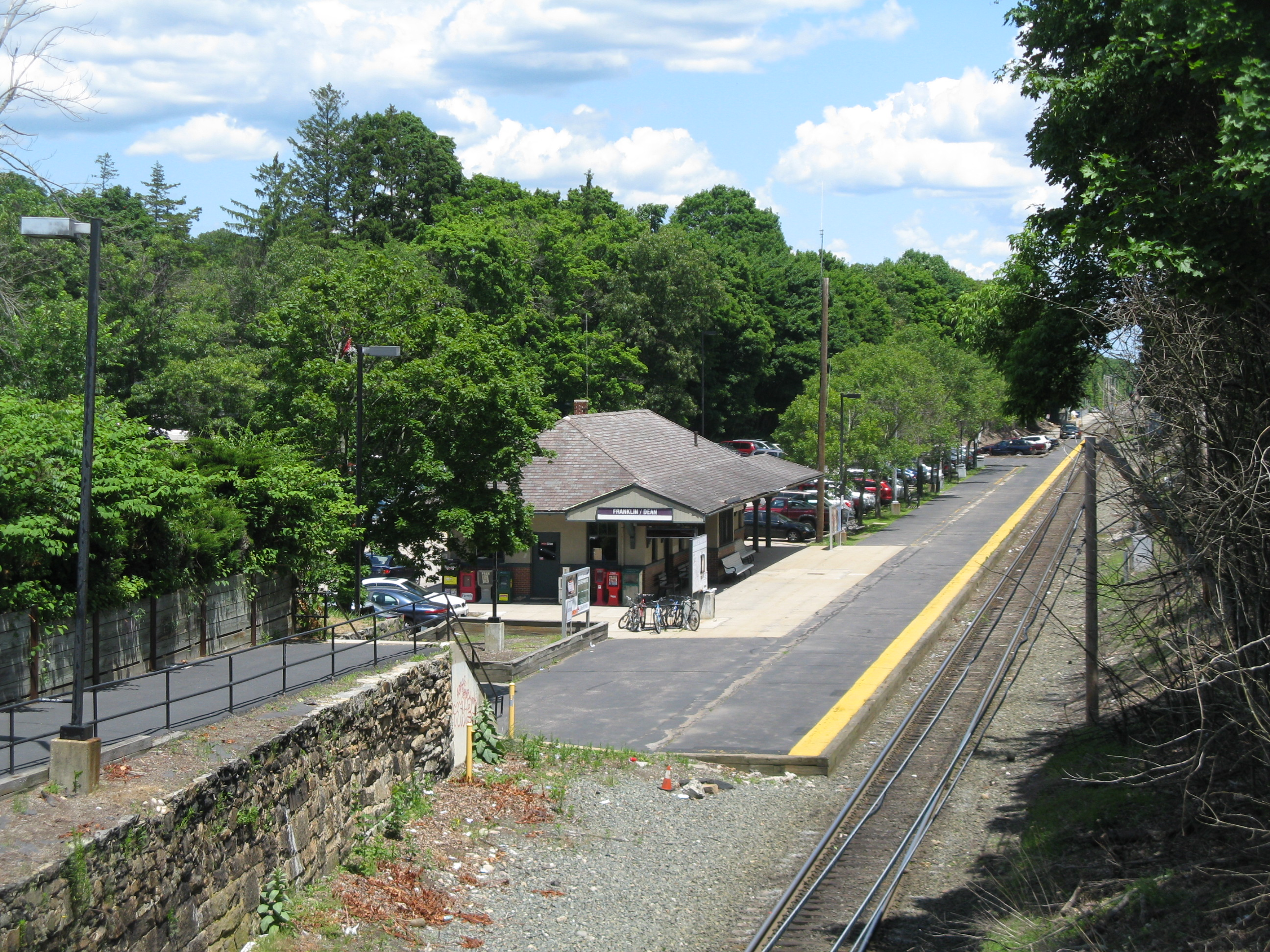 Franklin - Dean College MBTA station, Franklin Massachusetts